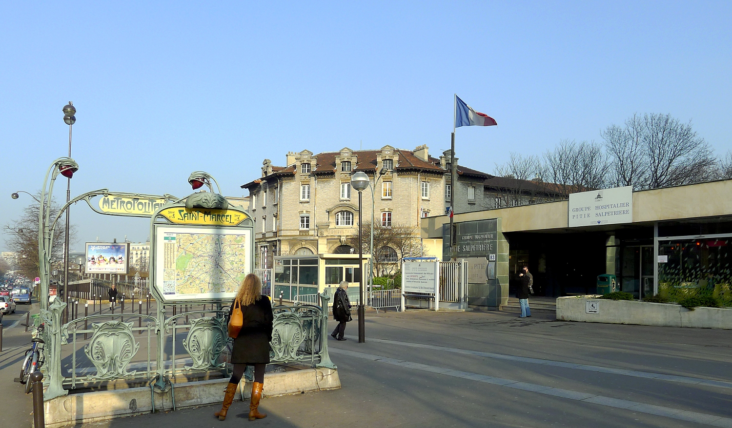 Pitie-Salpetriere Hospital